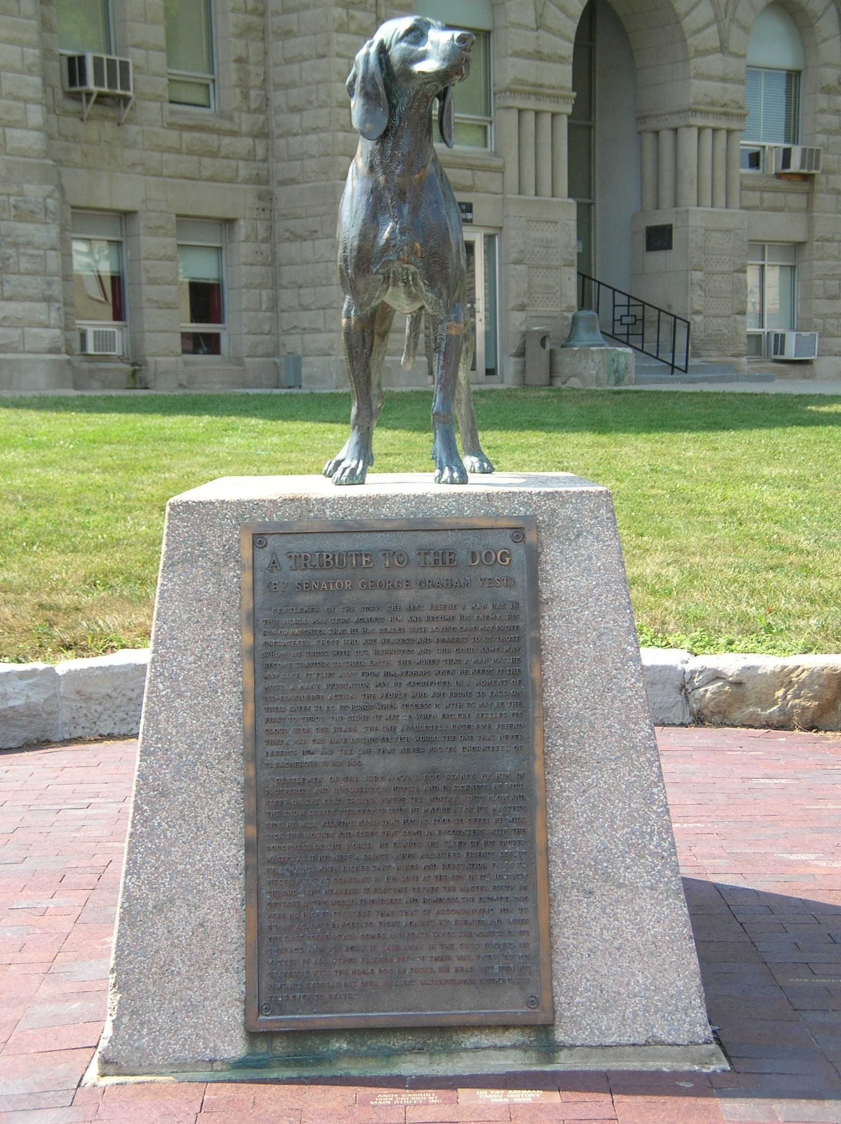 Old Drum Statue in front of the Johnson County Courthouse located in Warrensburg, MO United States. The Statue built in 1958 recevied contributions from 42 states half dozen countries and Harry S. Truman.